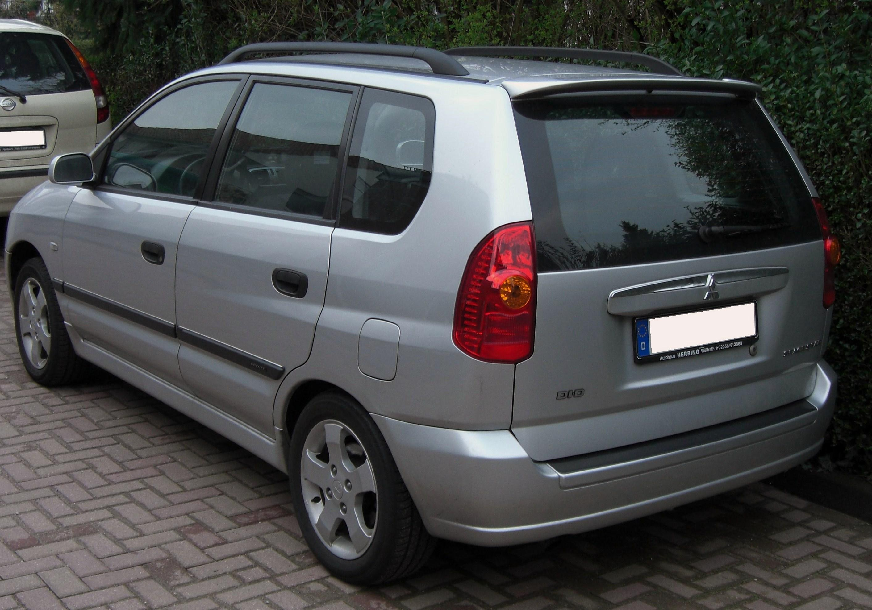 Mitsubishi Space Star